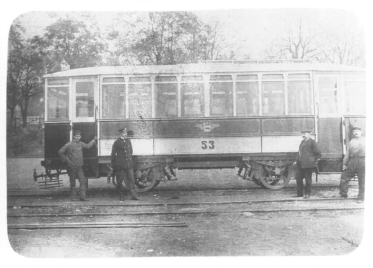 Brno tram No. 53